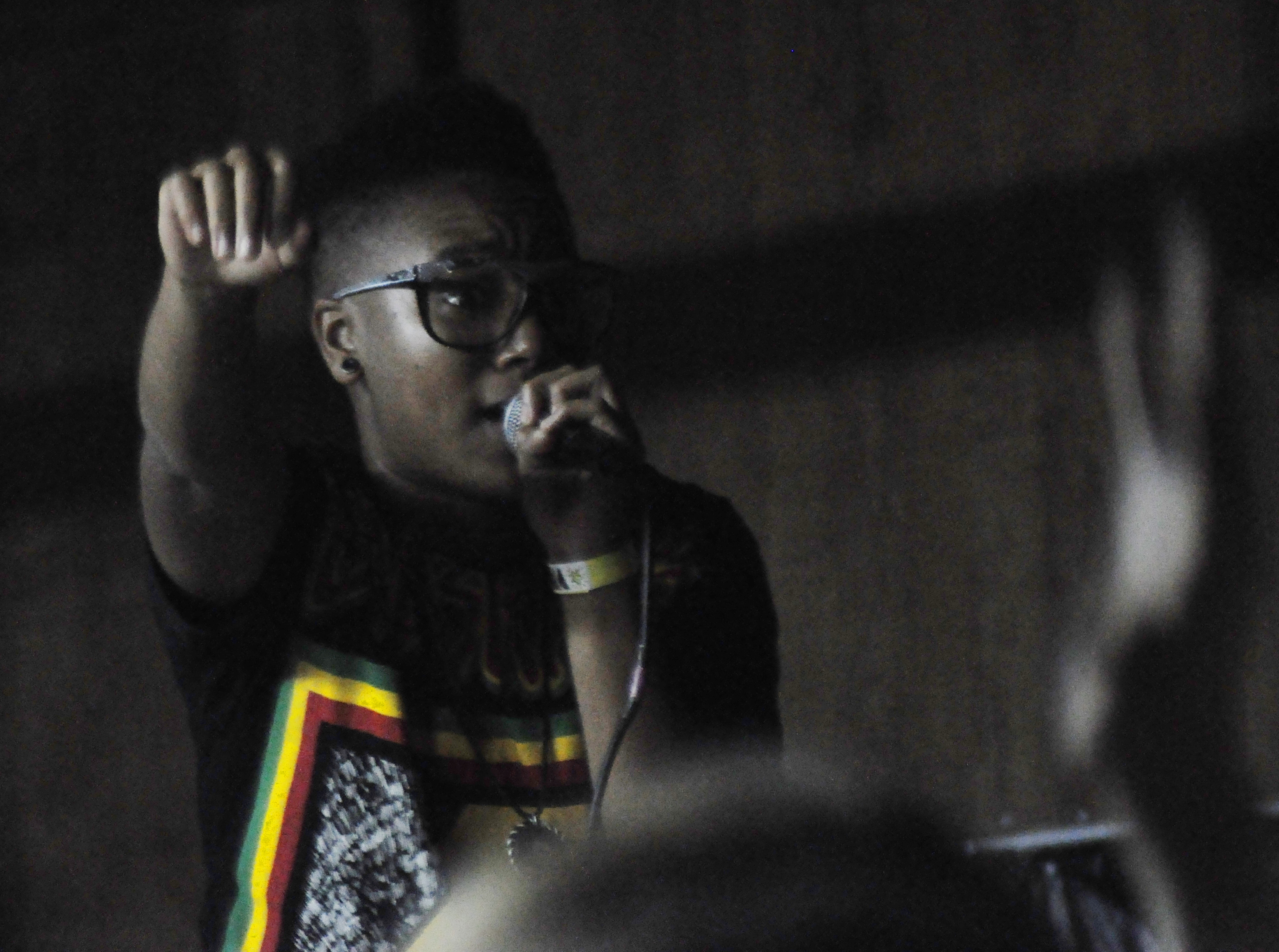 Thee Stasia (a.k.a. Neon Warwick) of Thee Satisfaction (also written as THEESatisfaction) performing with hip-hop group Champagne Champagne at the New York Fashion Academy in Ballard, Seattle, Washington as part of Reverb 2009.